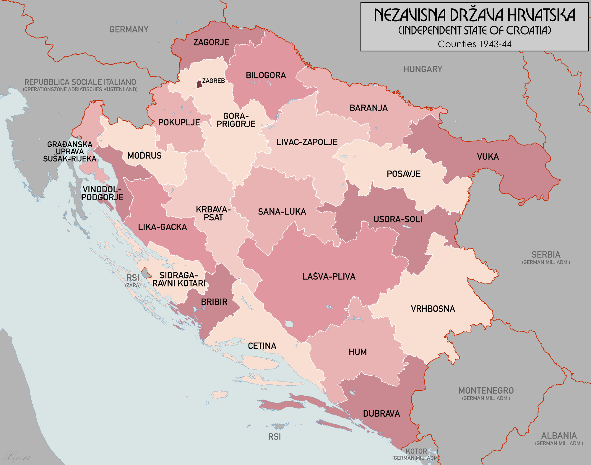 Administrative Map of the Independent State of Croatia in 1943 (Nezavisna Drzava Hrvatska)